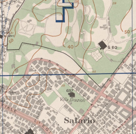 Cropped version from a military map of Rome in 1944 by the U.S. Army.The detail focuses on the two buildings labelled G57 & G60 - they respectively are "Villa Grazioli: Badoglio's residence", and "Villa Savoia: the King's villa".